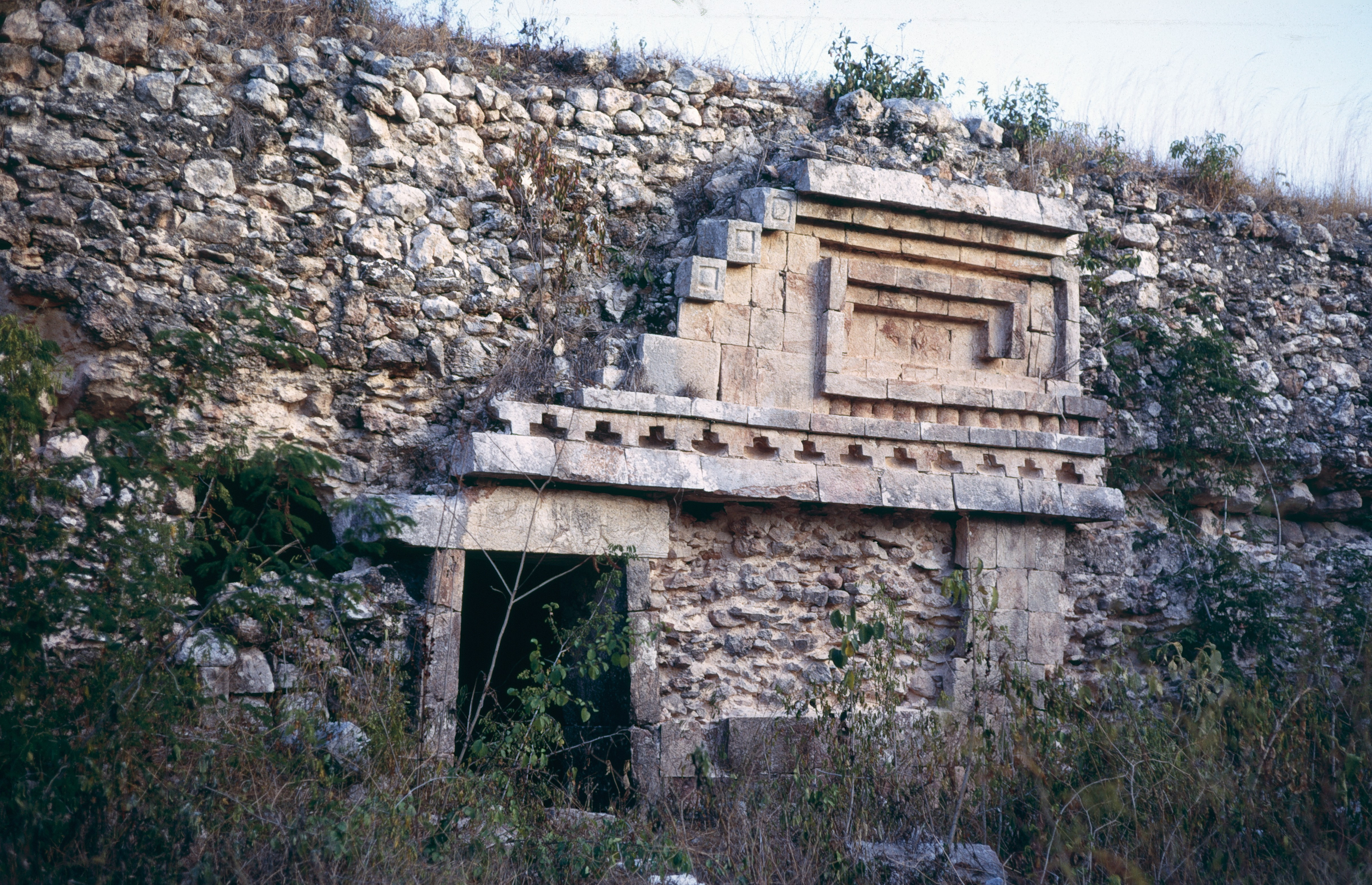 Kabah, Yucatan, Mexico: building 1A2